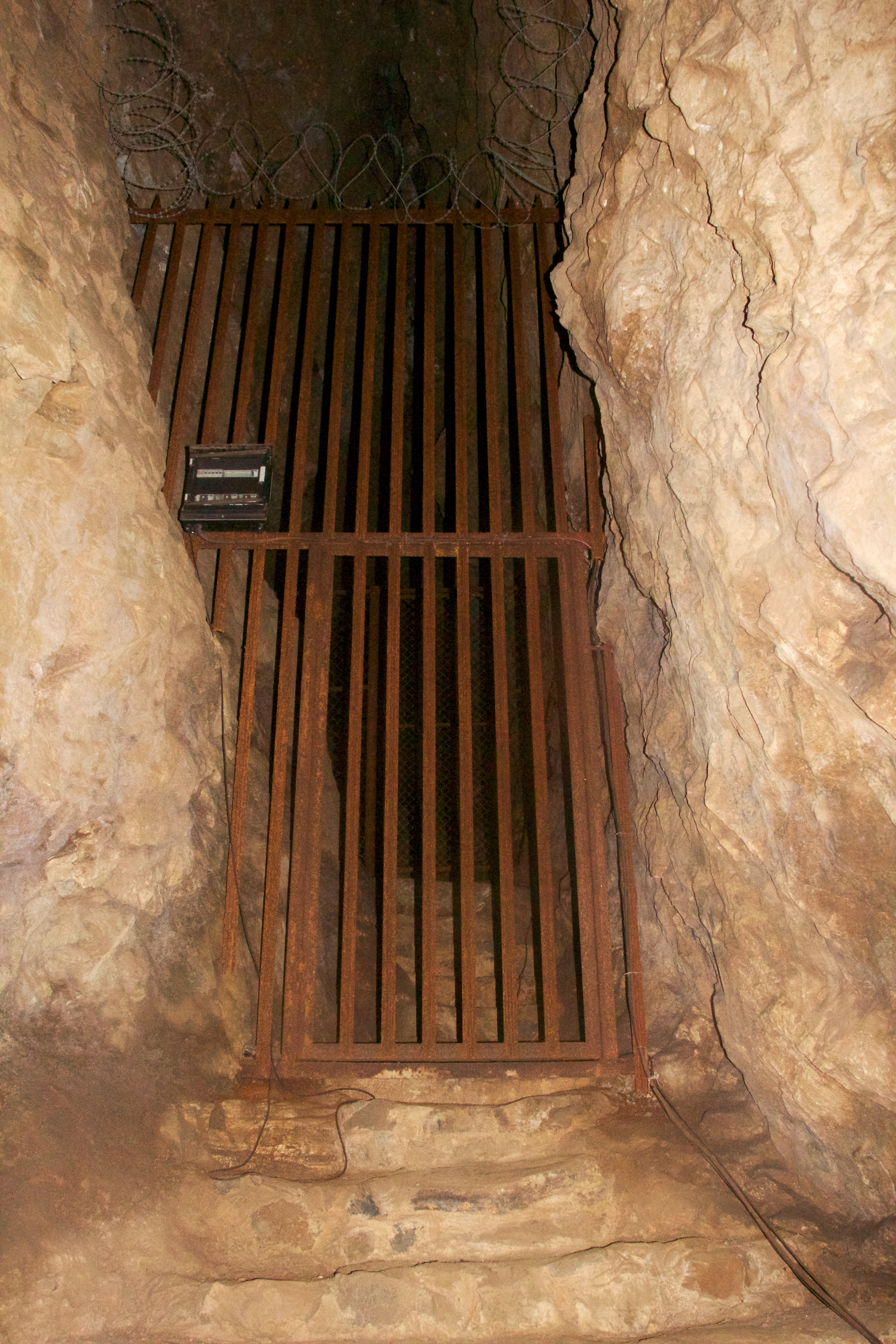 In the Sterkfontein caves. Entrance to the cave where Little Foot was discovered.